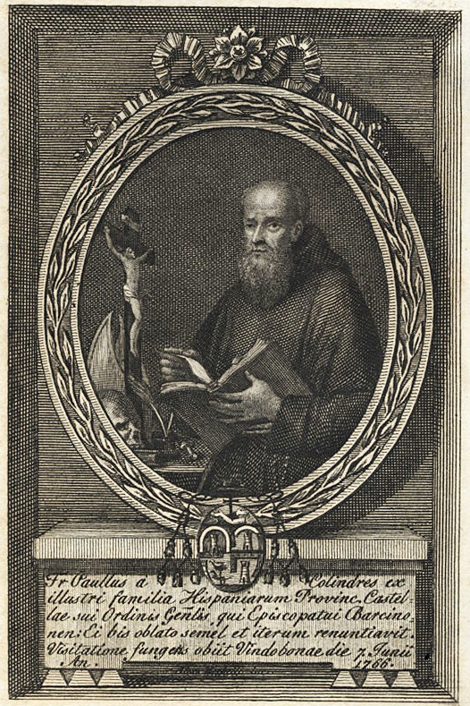 Paul von Colindres (1696-1766), Ordensgeneral der Kapuziner